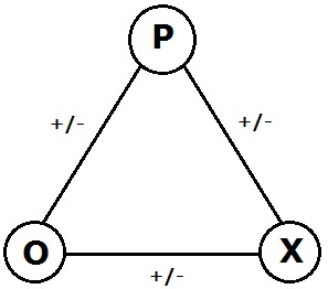 F. Heider's P-O-X model